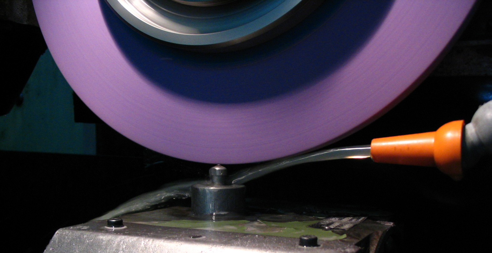 Dressing a grinding wheel with Einkorndiamant